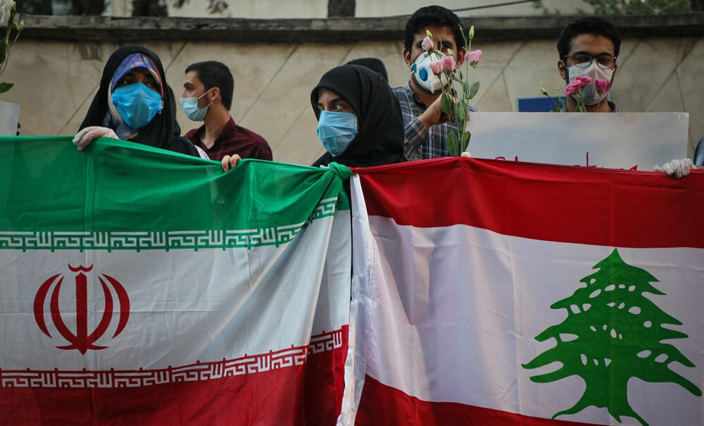 همدردی مردم ایران با مردم لبنان